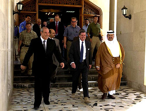 Iraqi Prime Minister Ayad Allawi (left), Ambassador L. Paul Bremer, and President Sheikh Ghazi Ajil al-Yawar make their farewells after a ceremony celebrating the transfer of full governmental authority to the Iraqi Interim Government, June 28, 2004, in Baghdad, Iraq. U.S. Air Force photo by Staff Sgt. Ashley Brokop.